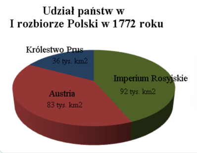 First Partition of Poland share